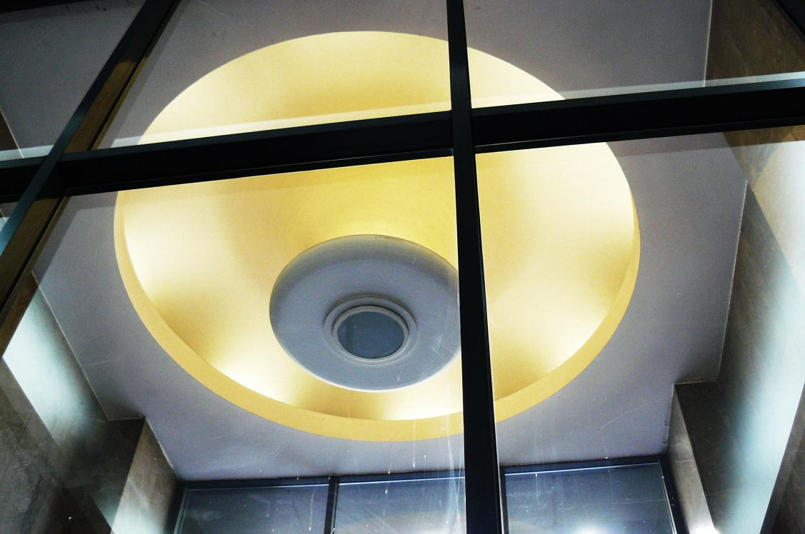 Bank PKO BP - detail of interior (Division 1).